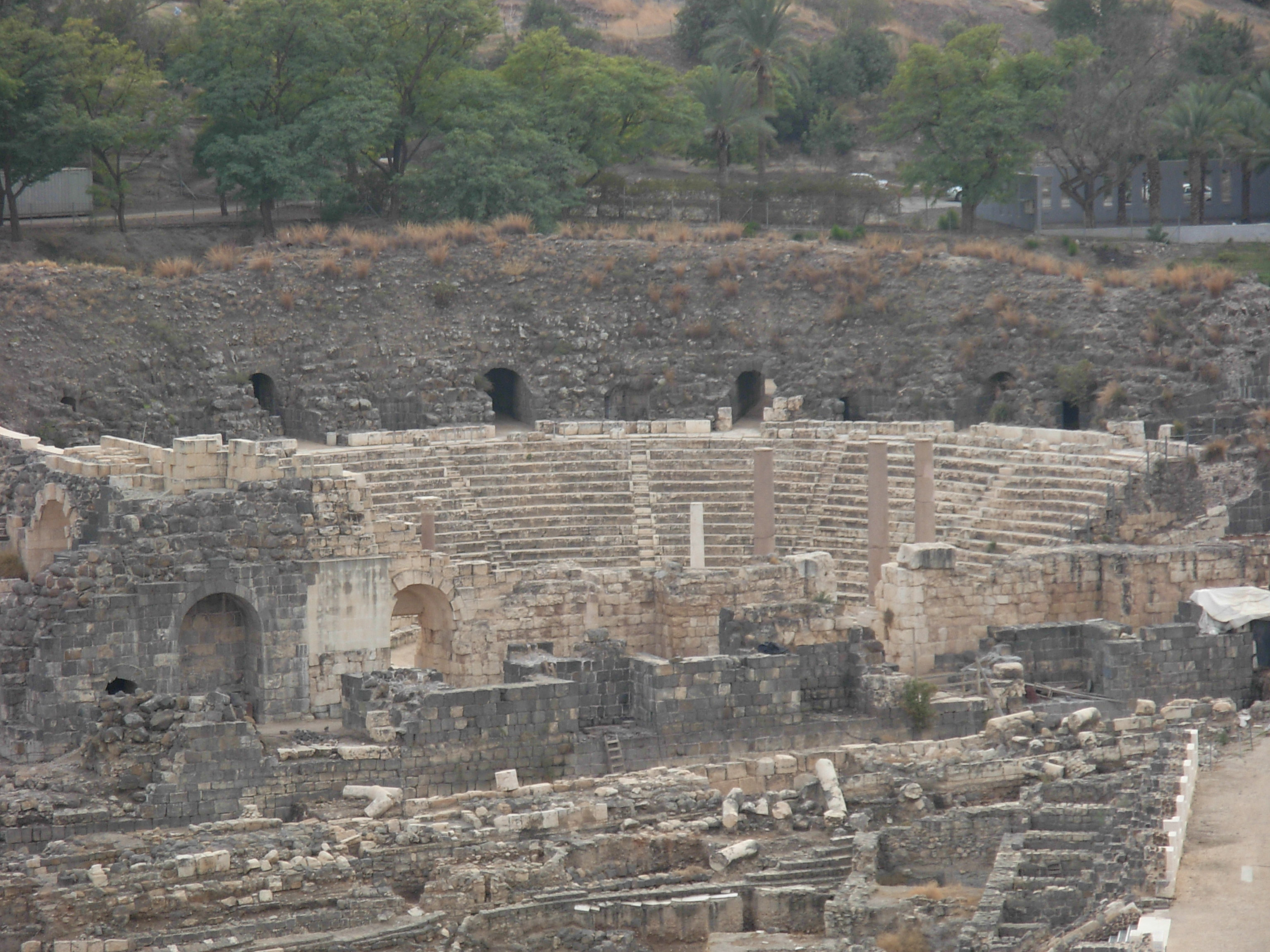 The Roman Theater in Bet She'an